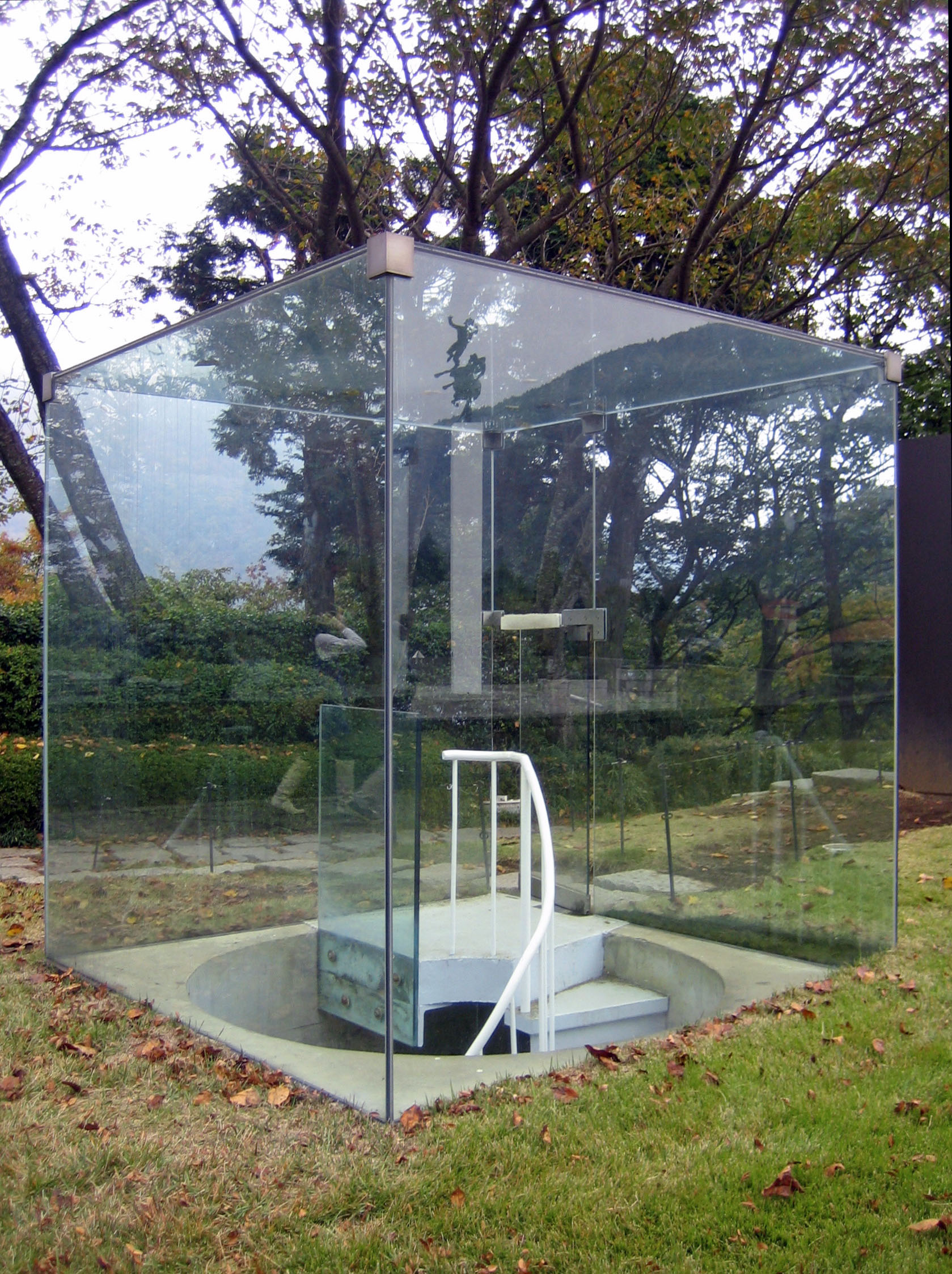 "My Sky Hole" (1979) by Bukichi Inoue in Hakone Open-air Museum